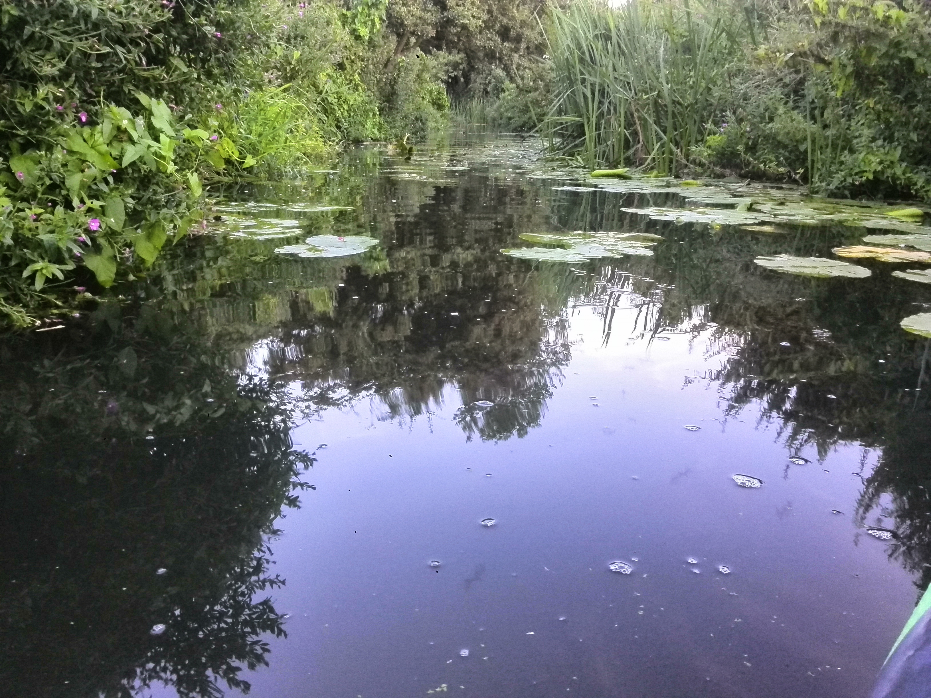 River Bourne, Tributary of R.Medway, Kent, England